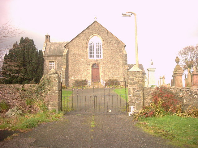 Kirkcolm Church Kirkcolm Church taken from the other side of Church Hill(The road in front of the church). In the grounds is the Kilmorie Cross which was carved in the 10th century.